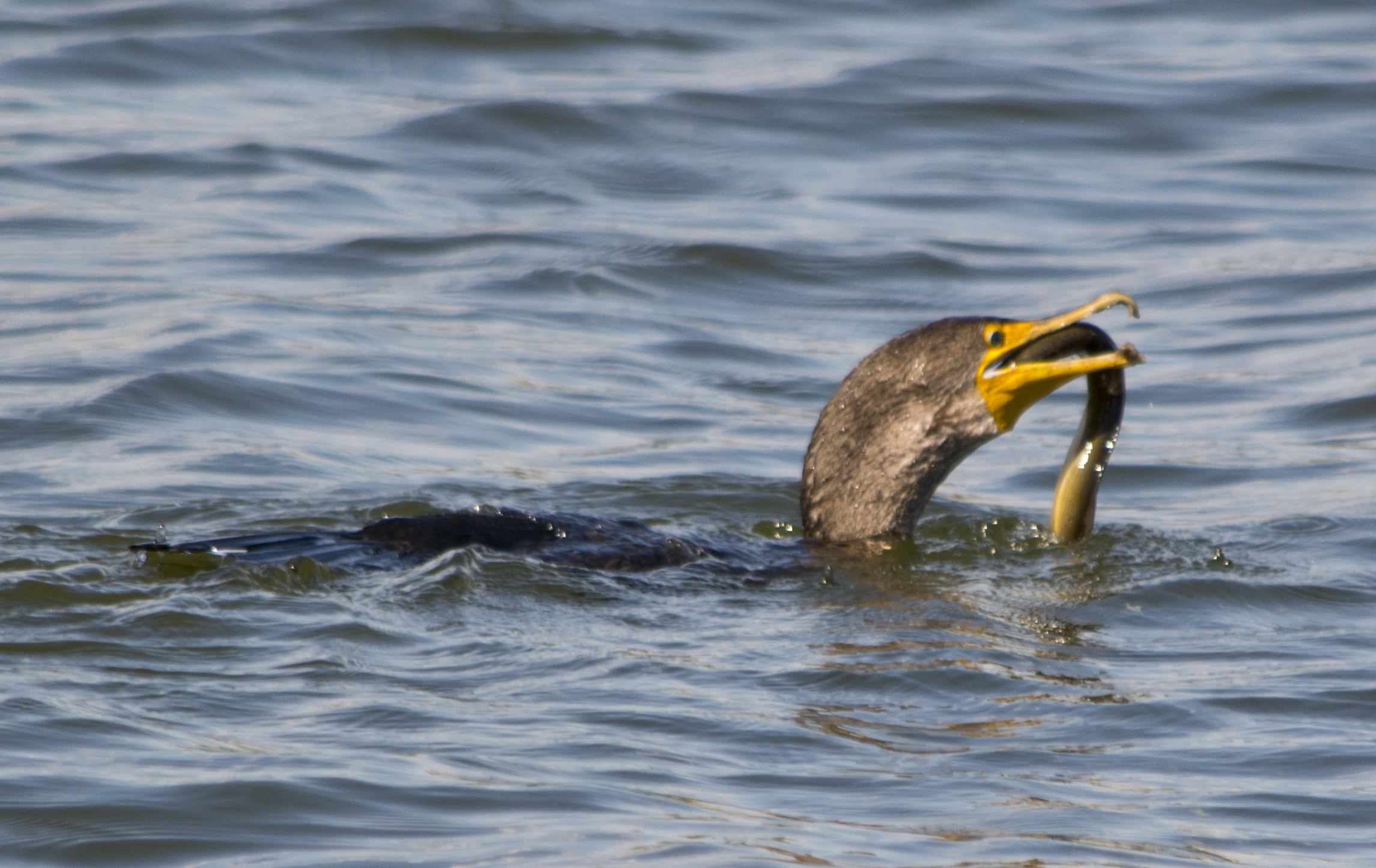 A Great Cormorant (Phalacrocorax carbo) eating an American eel (Anguilla rostrata) in the Washington Channel of the Potomac River in Washington, D.C., in the United States.